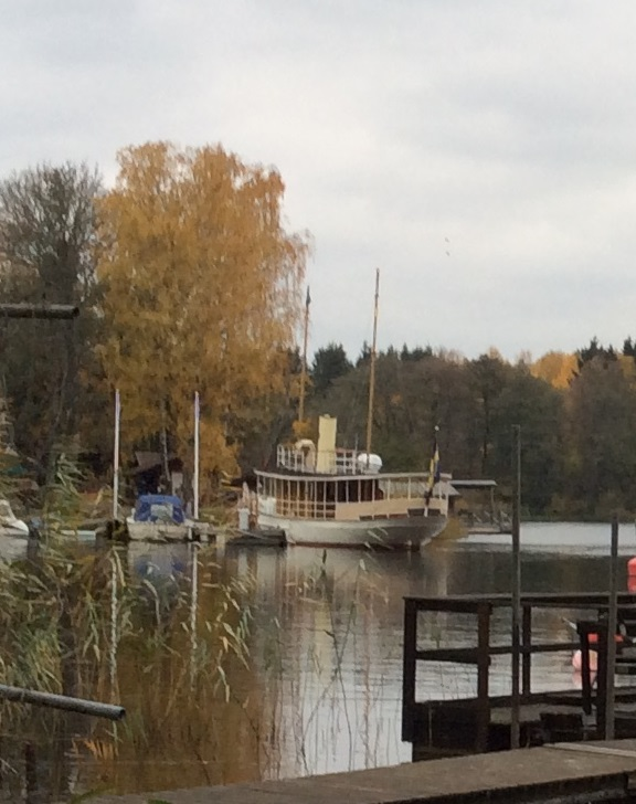 M/Y Arona in winter harbour autumn 2016